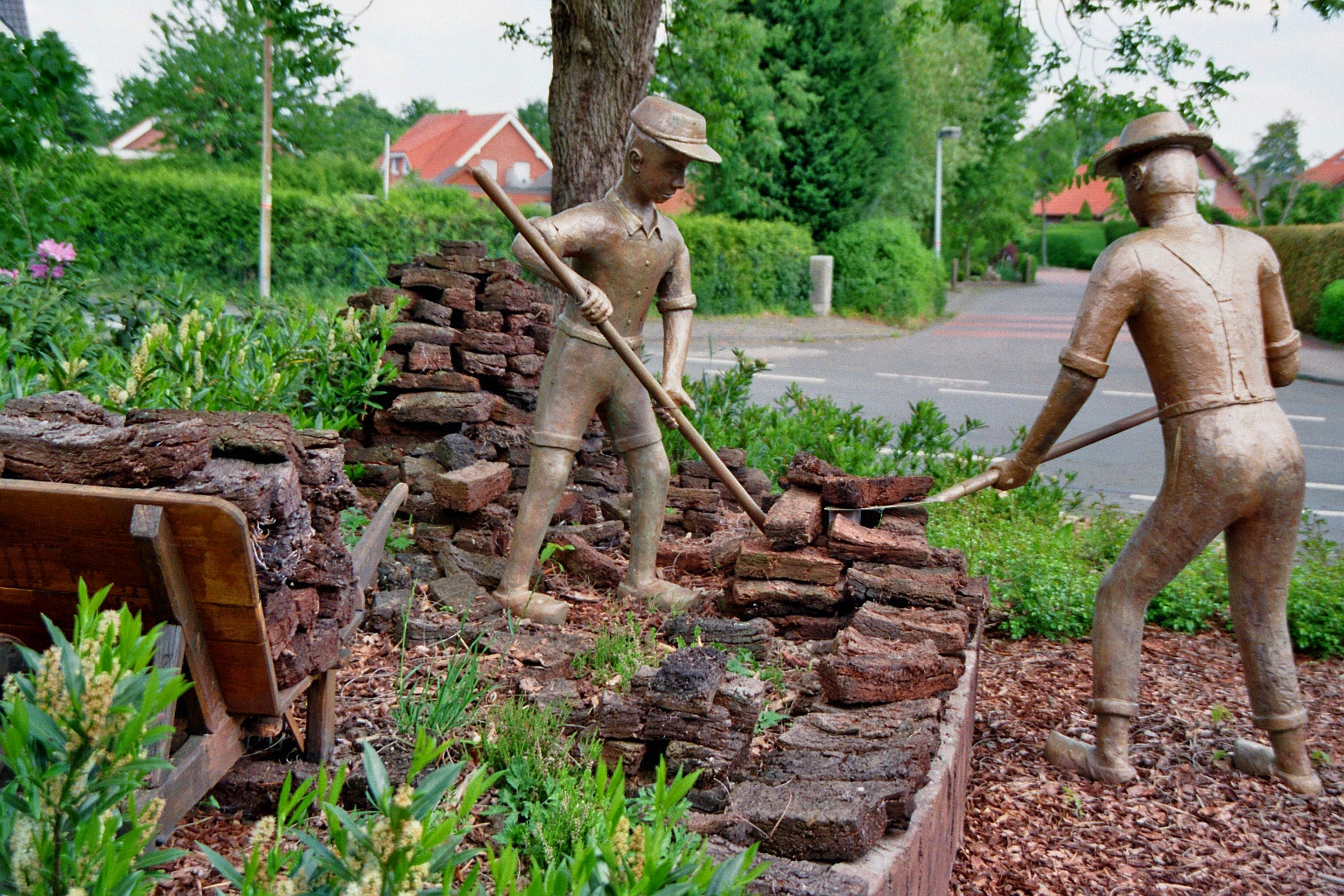 Sculpture group Torfstecher und Sohn bei der Arbeit (Peat Cutter and Son at Work) in Recke, Kreis Steinfurt, North Rhine-Westphalia, Germany. The memorial recalls the history of peat cutting in Recke. It was made by Heinz Stall and Josef Struck after suggestions by Werner Heukamp and Josef Surholt.